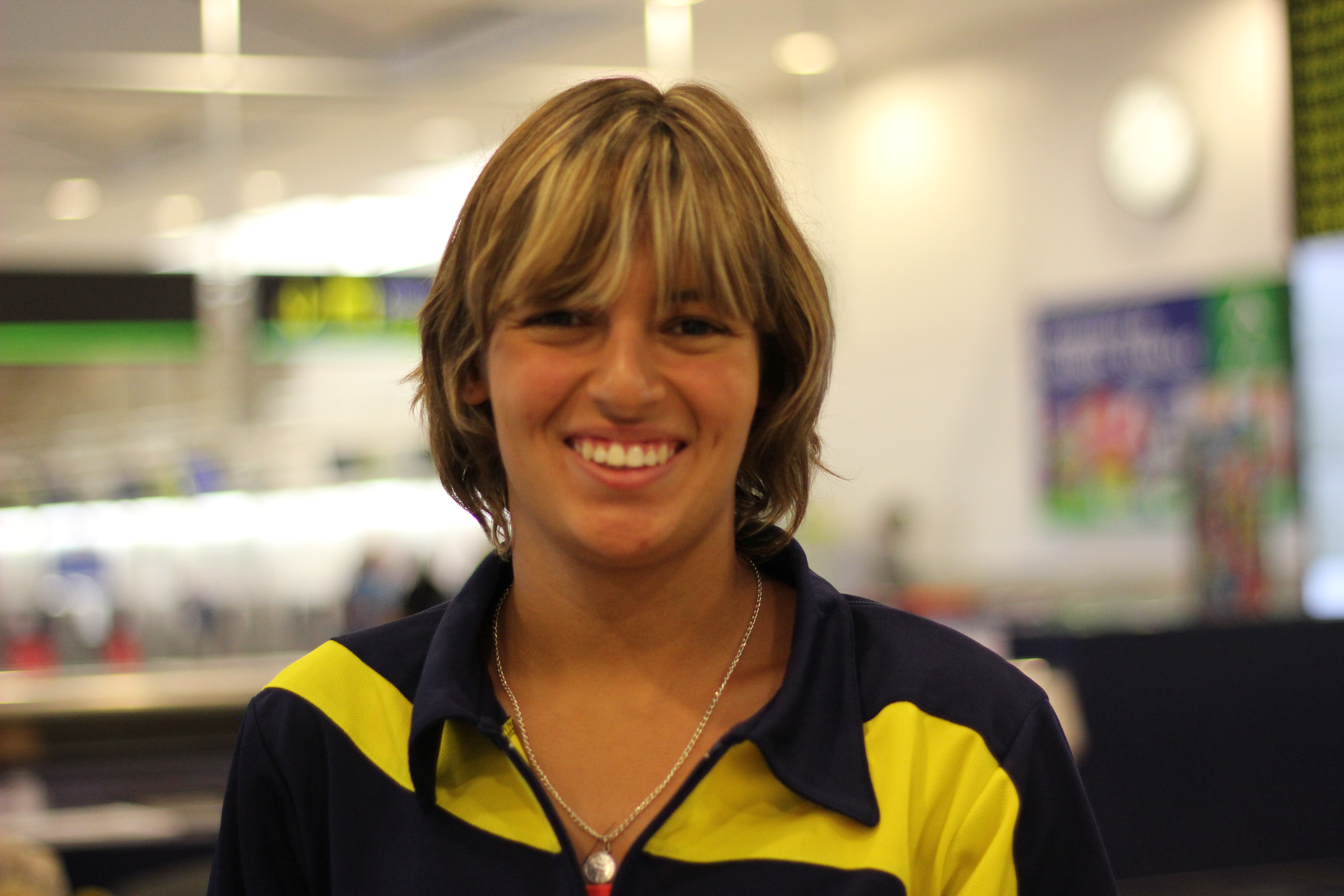 Paralympic swimmer Michelle Alonso in 2013 at the Madrid Airport ahead of the 2013 IPC Alpine World Championships